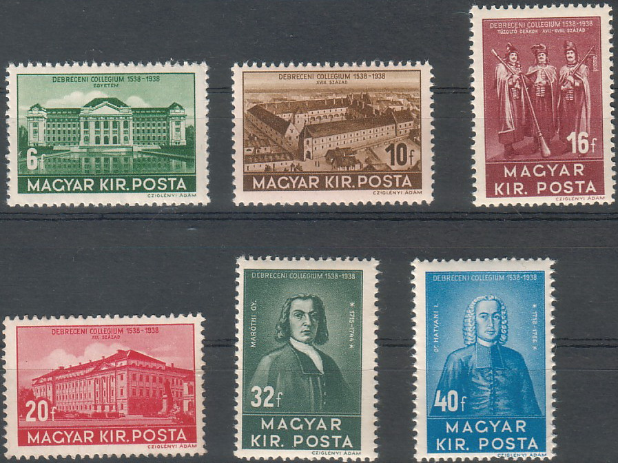 Stamps issued to commemorate the 400th anniversary of Reformed College of Debrecen